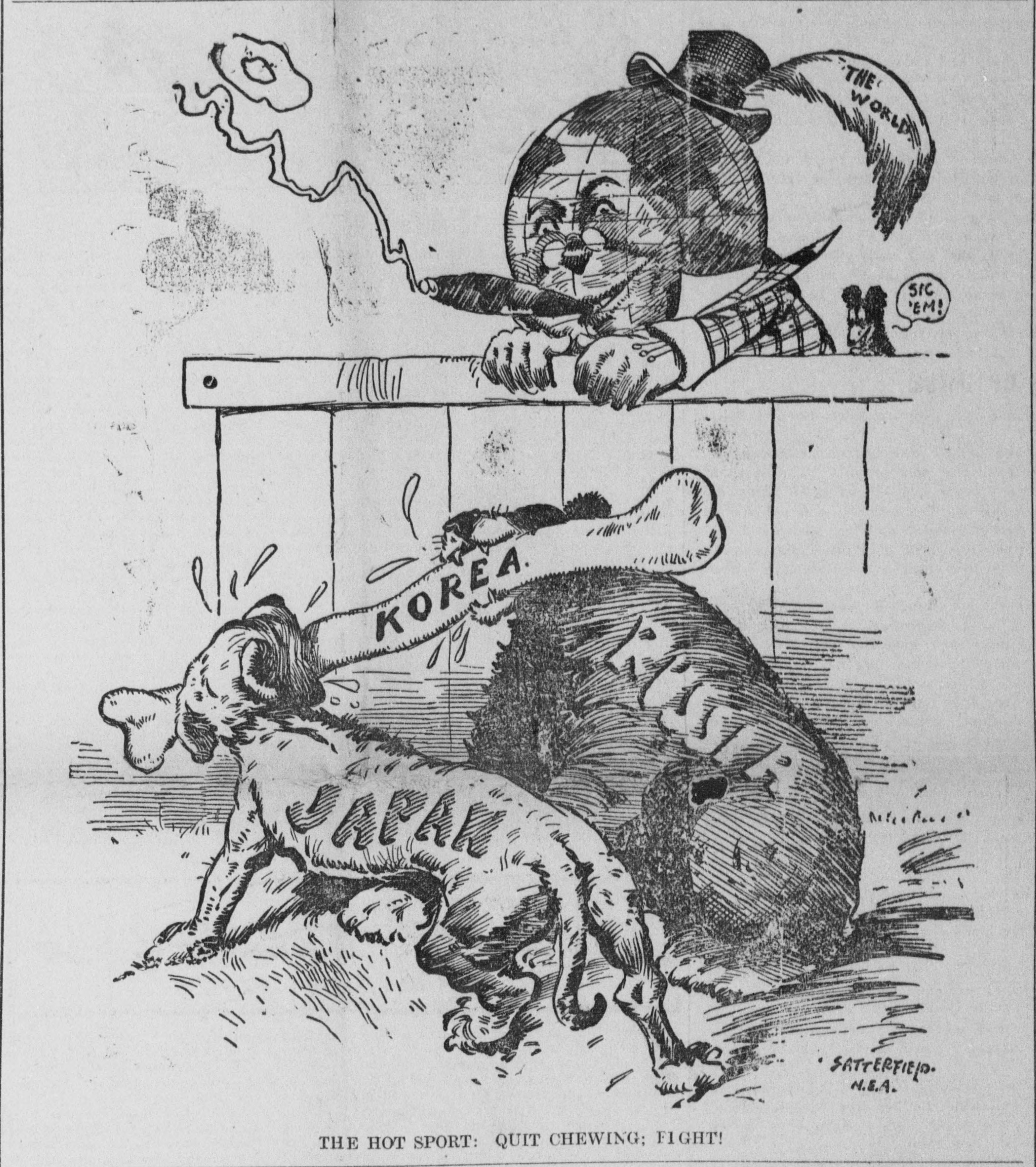 As two dogs (the Russian Empire and the Empire of Japan) gnaw on opposite ends of a large bone (Korea), the rest of the world looks over the fence and tells them to fight instead of wasting time chewing.